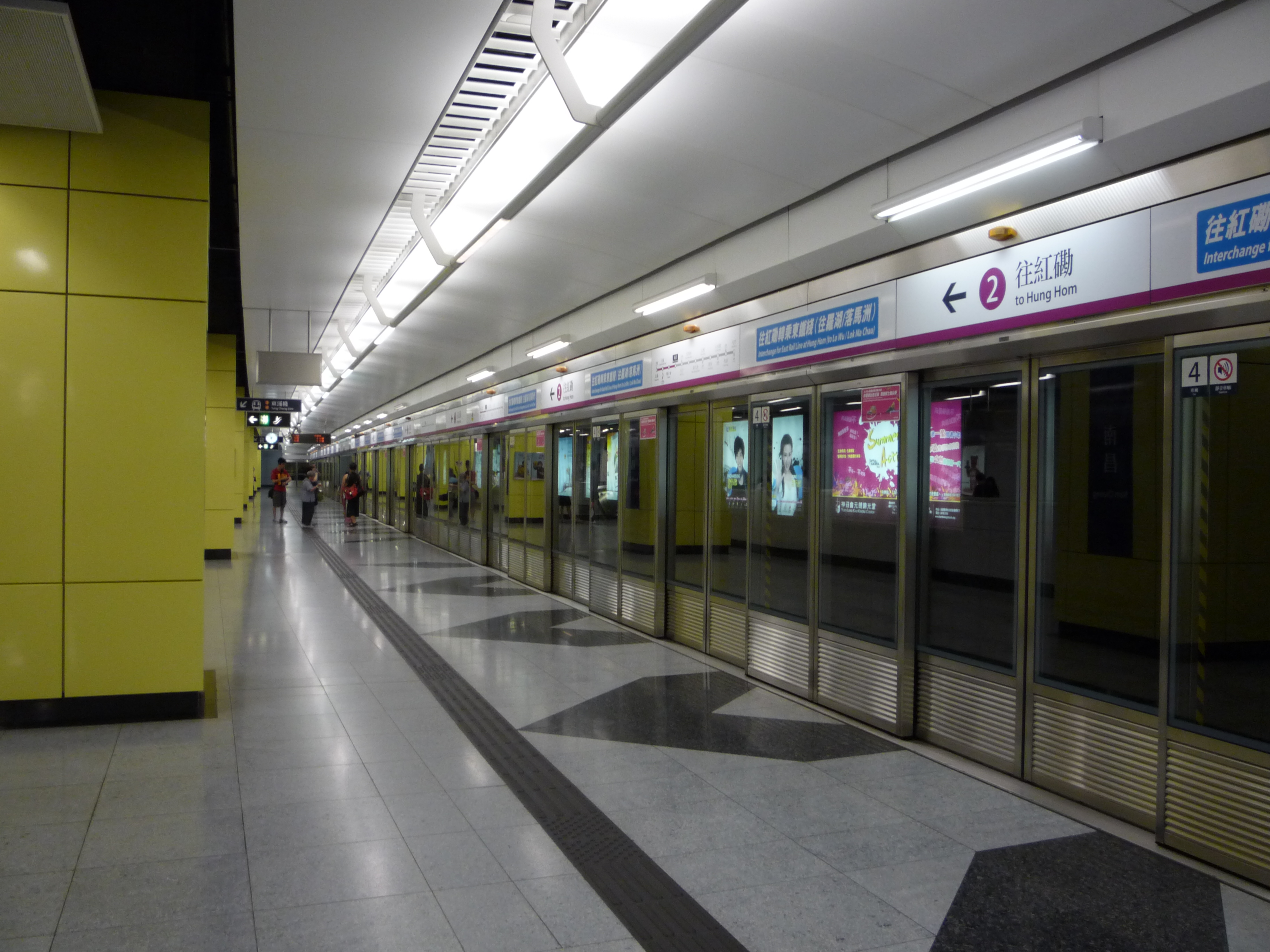 MTR Nam Cheong Station platform No.2